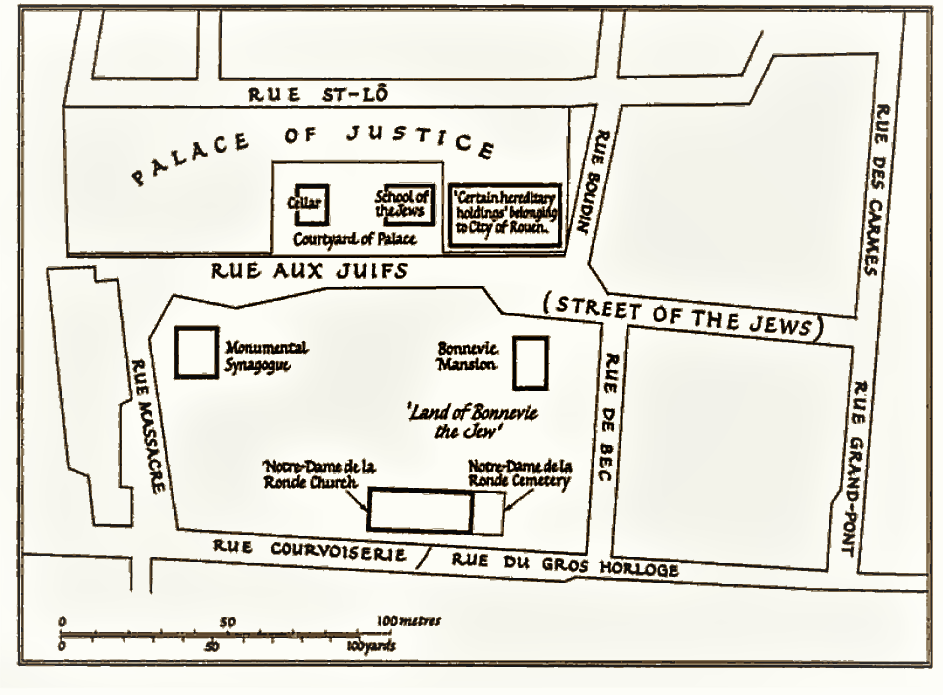 גטו רואן בצרפת